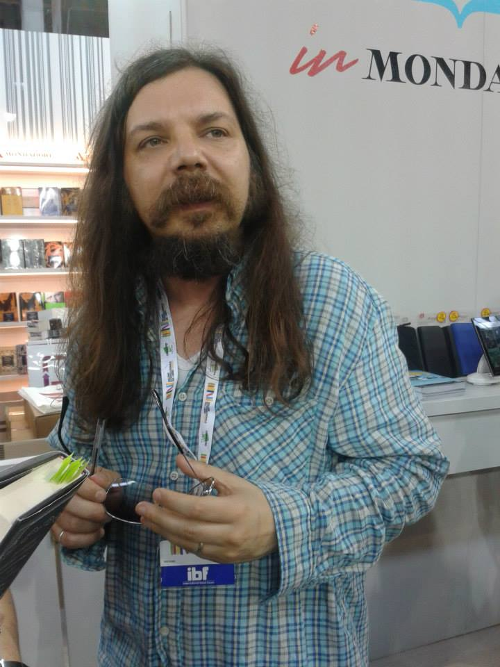 Matteo Strukul at the 2014 Turin book fair